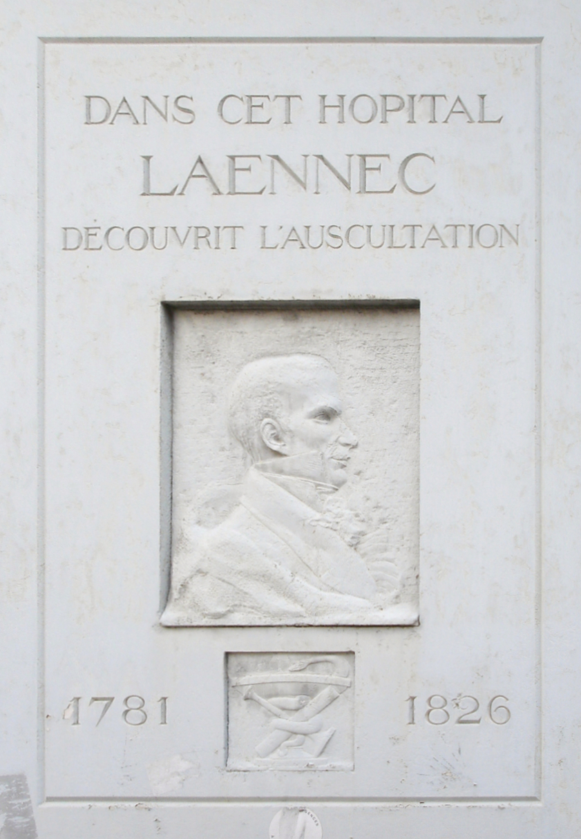 Memorial plate of Laennec, Hopital Necker, Rue de Sevres, Paris, France